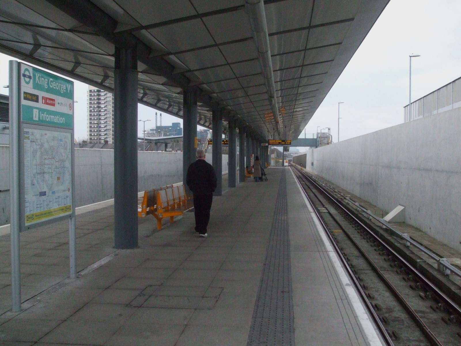 King George V DLR station looking west. Photo taken a few weeks after the extension to Woolwich Arsenal opened.